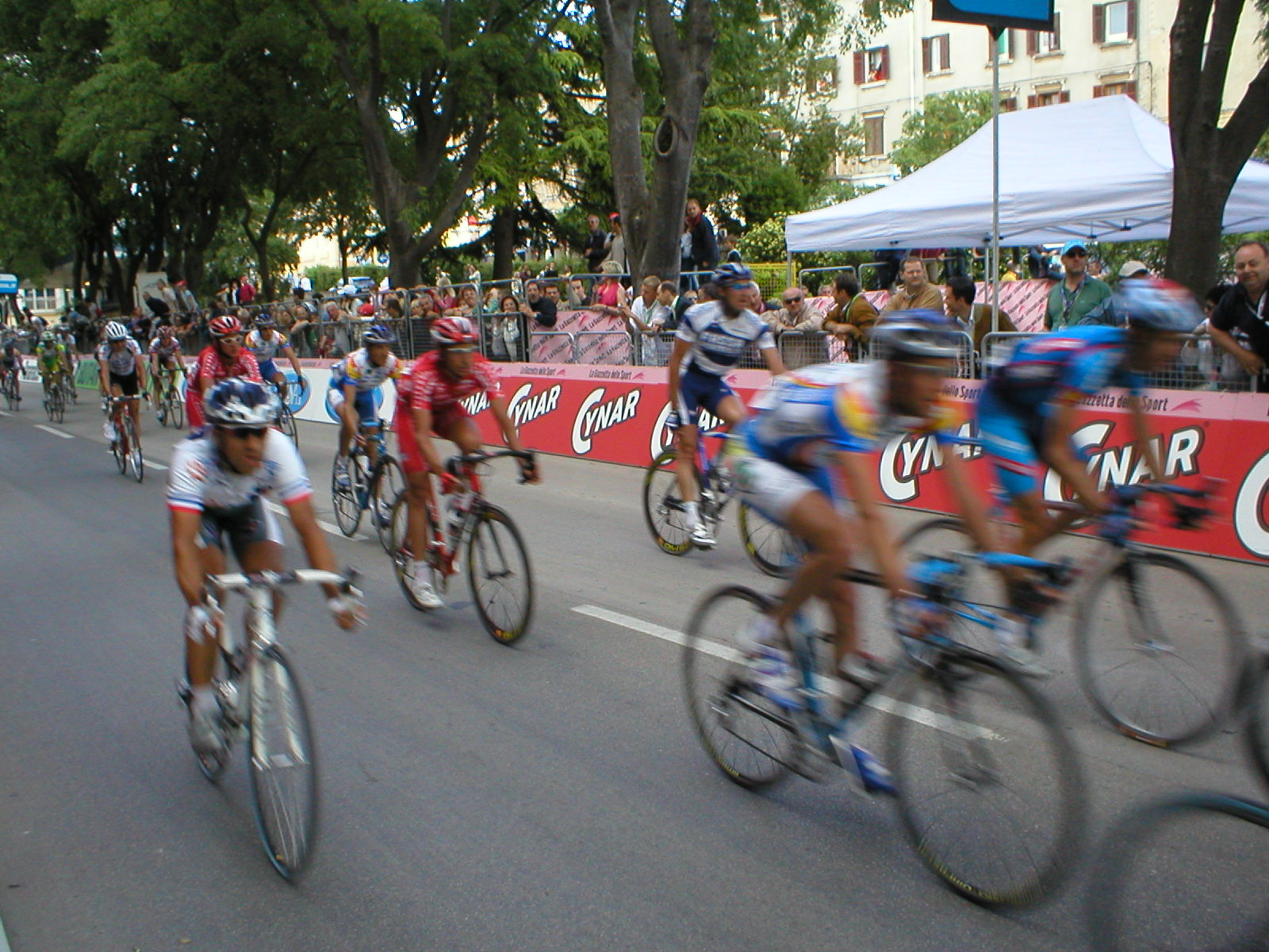 The 87th Giro d'Italia in Pula, Croatia